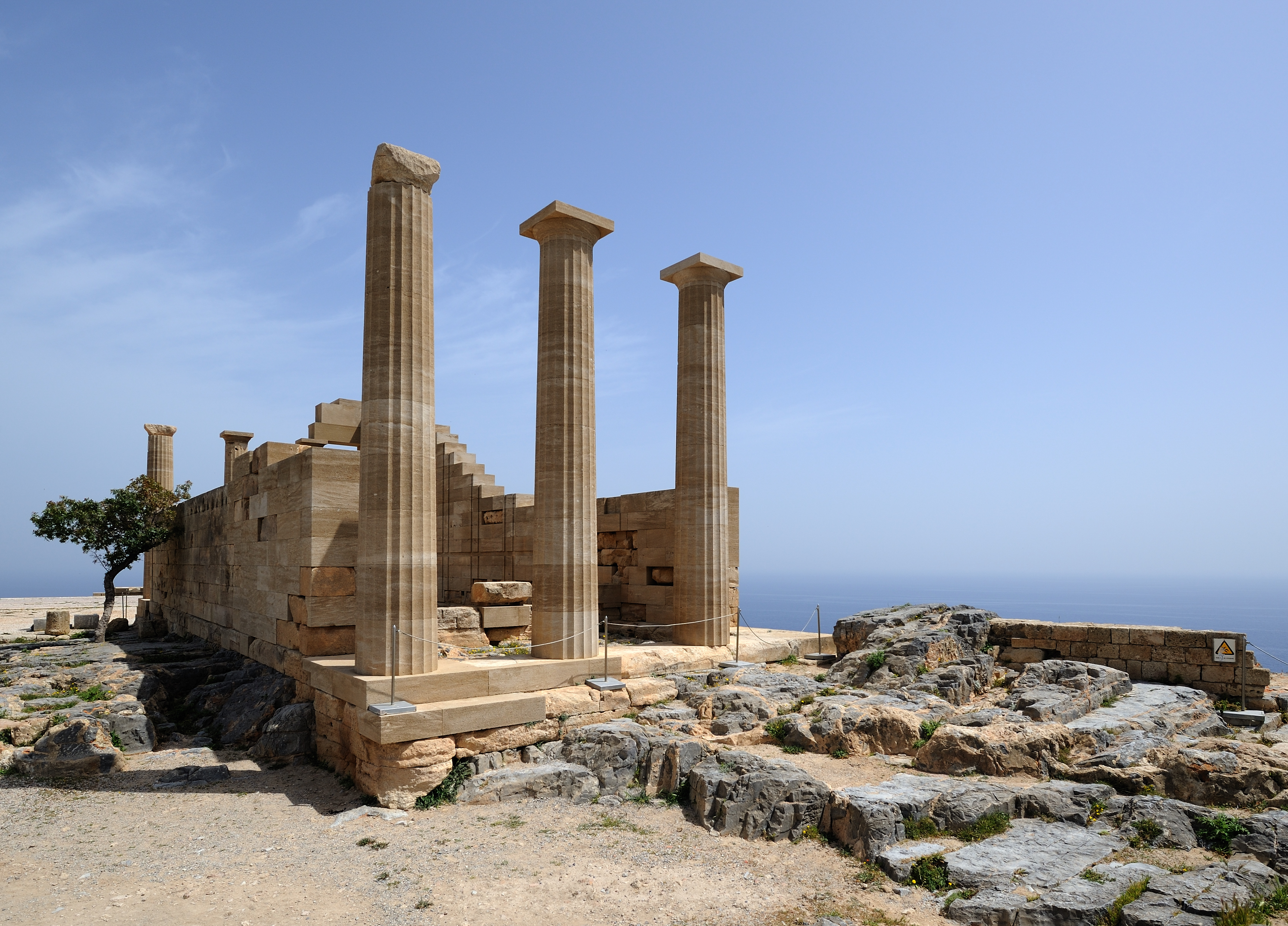 The Doric Temple of Athena Lindia, dating from about 300 BC in Lindos, Island of Rhodes, Greece.